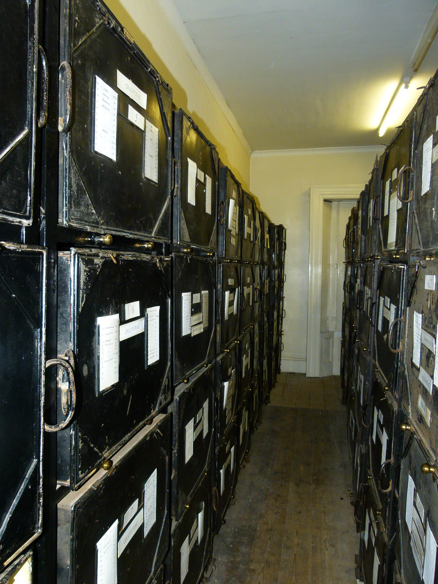 Storage for herbarium sheets at the South London Botanical Institute